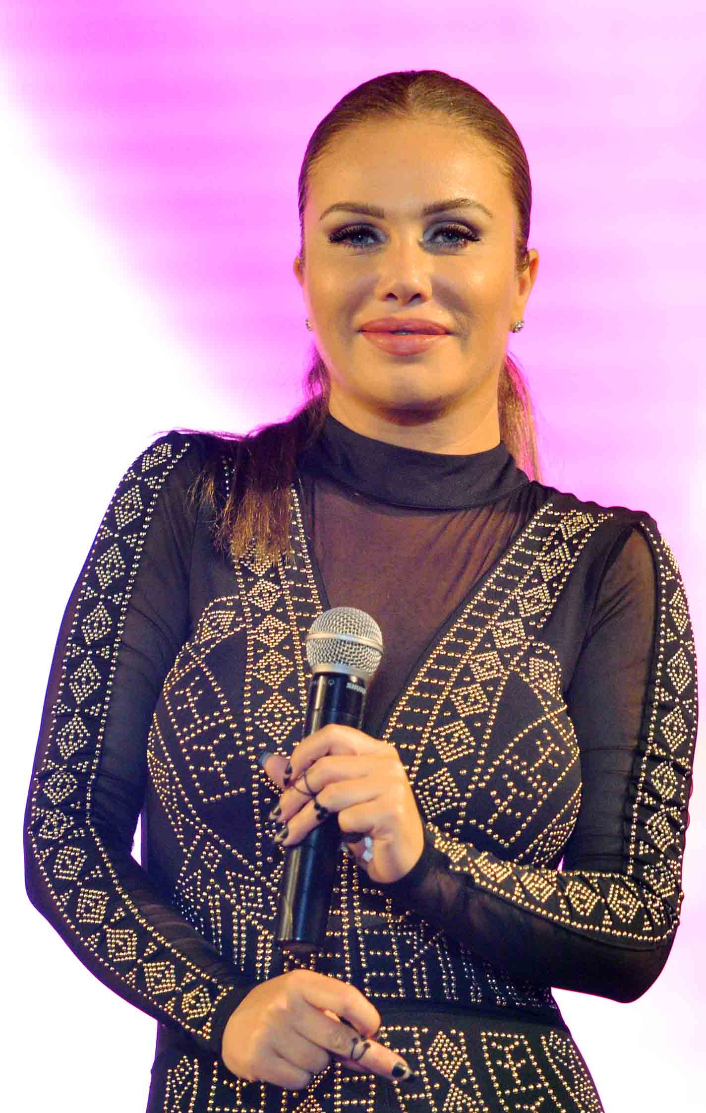 Nicole Saba, Delta University Concert, 16 October 2016 (14) Nicole Saba attended a concert Delta University for Science and Technology, Mansoura on 16 October 2016. dazzled by beauty and excitement of her black Jumpsuit accentuated by her elegance.